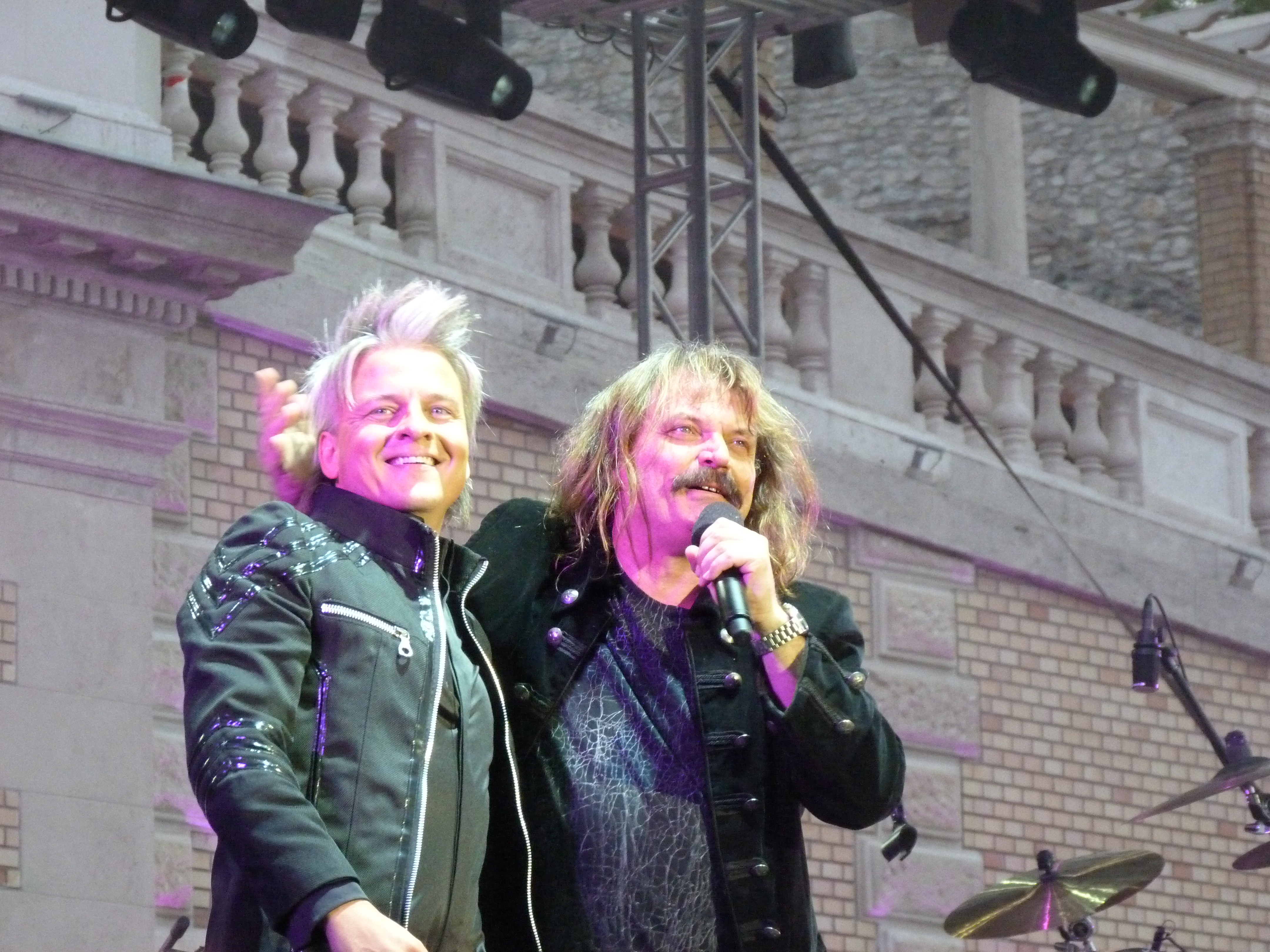 Live on the 21st of August, 2015. Várkert Bazár, Budapest, Hungary. Leslie Mandoki gave an open air concert at Várkert Bazár. His guests: Chris Thompson, Nik Kershaw, Piero Mazzocchetti, Szakcsi Lakatos Béla, Mike Stern.